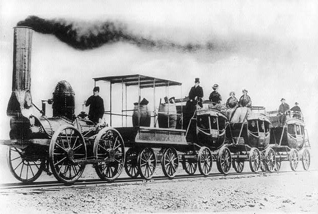 Replica of the De Witt Clinton. The original locomotive was built in 1831.